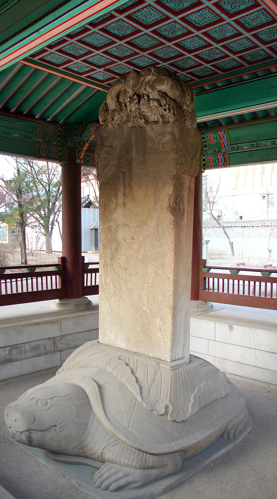 Monument of Wongaksa at Tapgol Park is a monument built in 1471 to comemorate the founding of Wongaksa (temple) in 1465. Tapgol Park is the site of the former Wongaksa. The turtle shaped base is constructed from granite and the body is cut from marble. On the top of the monument are found two elaborately carved dragons that are intertwined, rising up holding a Buddhist gem. The monument is designated Treasure #3.